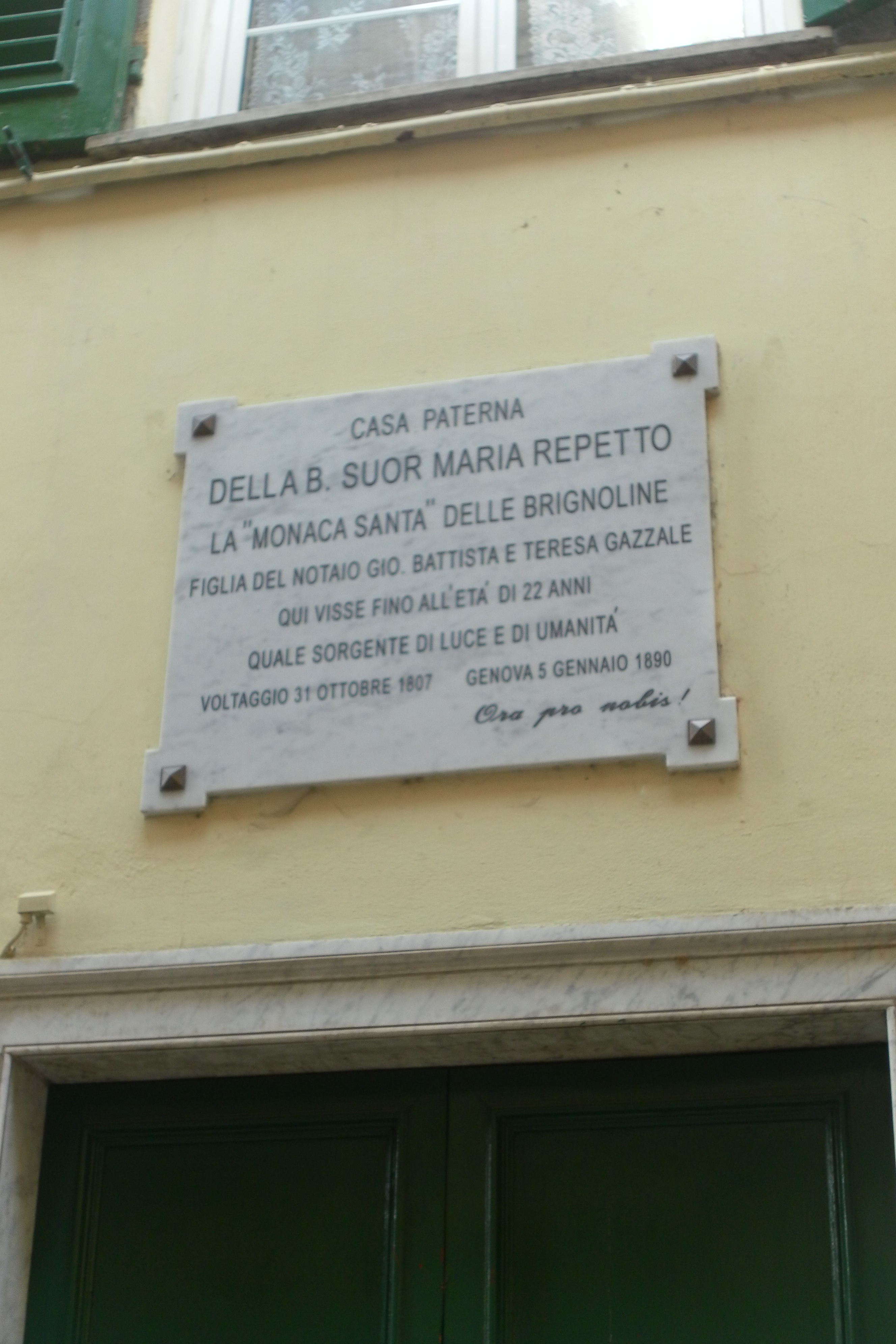 Voltaggio (AL)